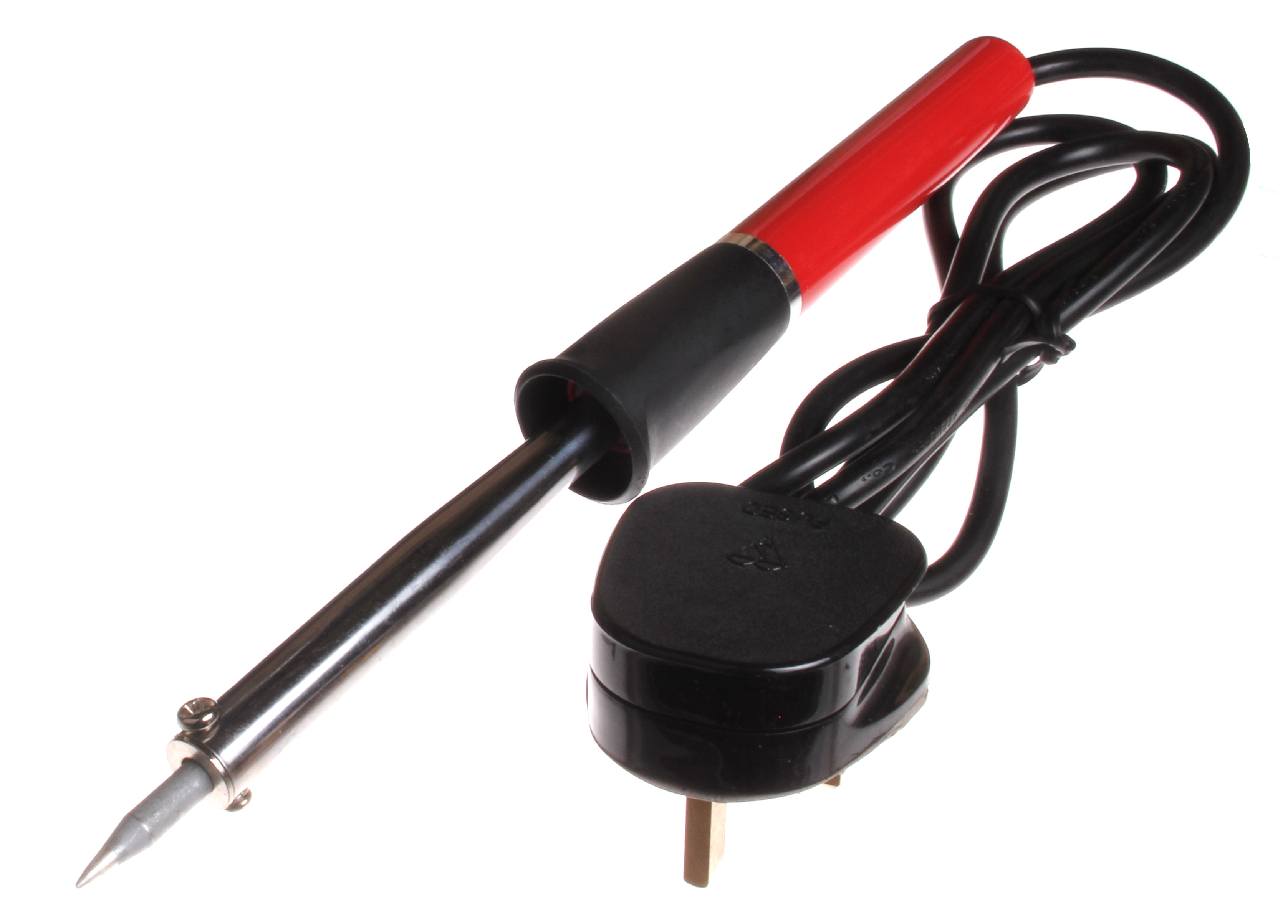 40 Watt Soldering Iron (UK Plug).